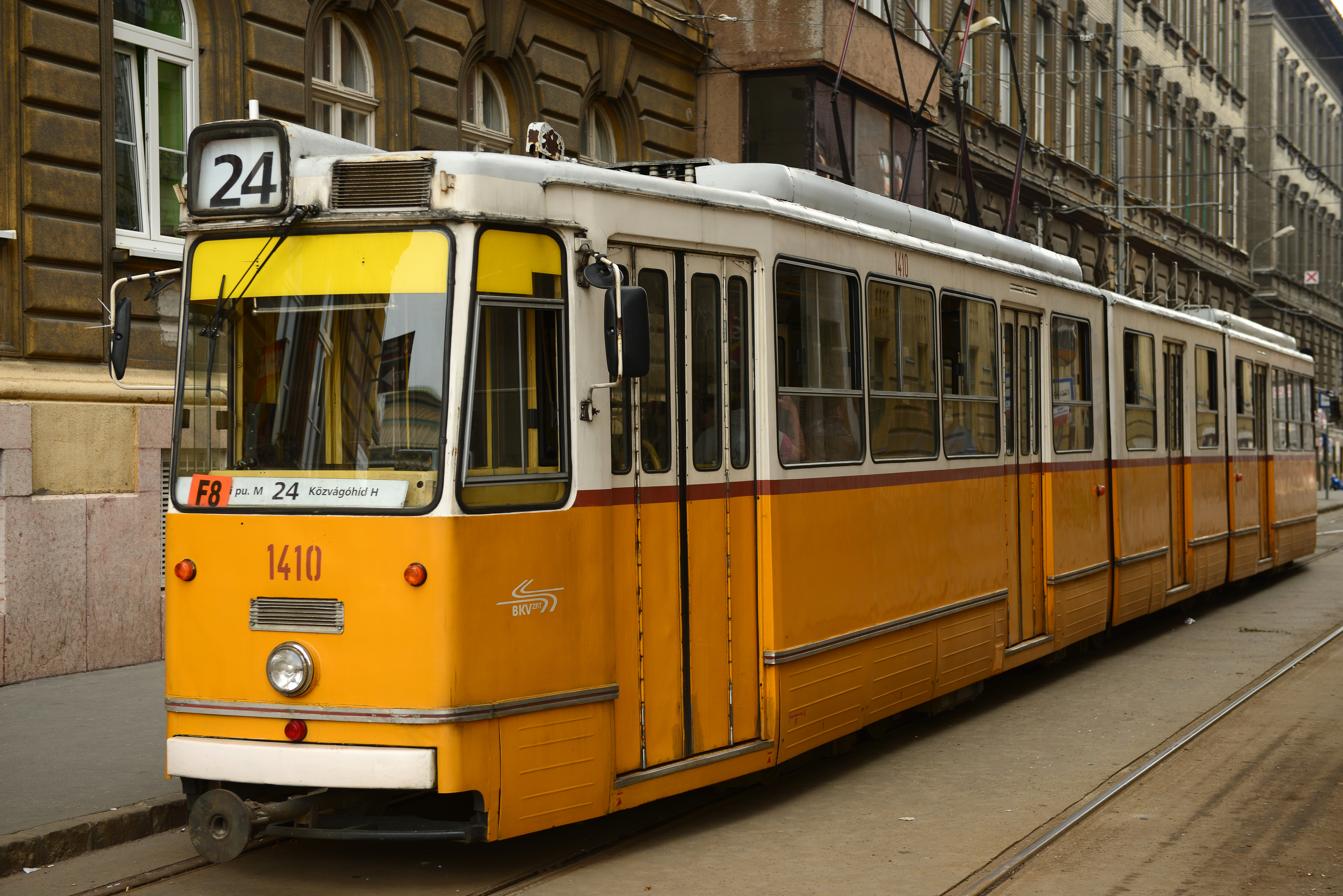 Tram at Station Keleti in Budapest, Hungary